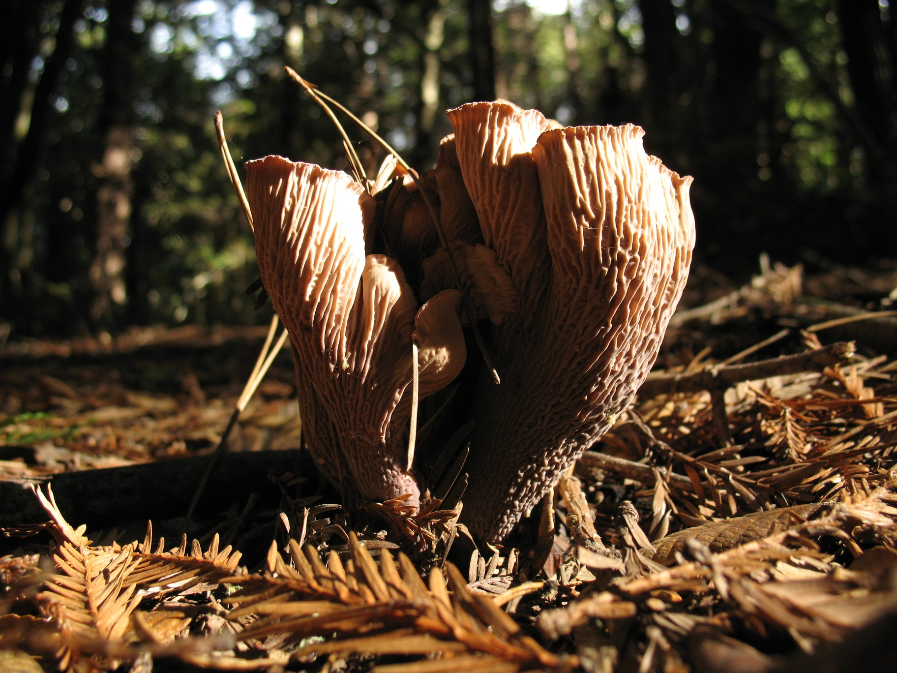 Gomphus clavatus (Pers.) Gray. Specimen found in Salt Point State Park, Sonoma Co., California, USA.